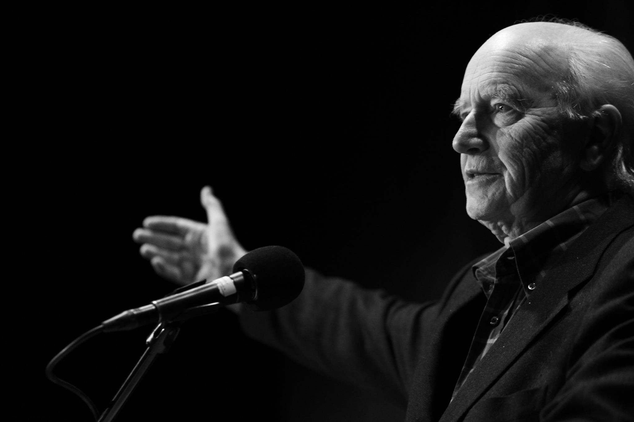 Thorvald Stoltenberg speaking at the house of literature in Oslo, December 11th 2012